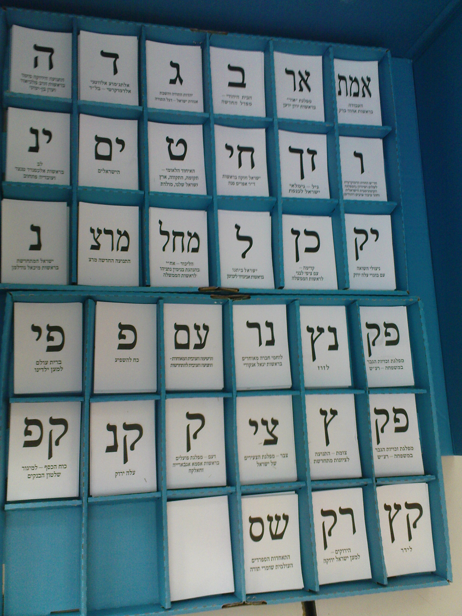 Ballot tickets for Israeli legislative election, 2009